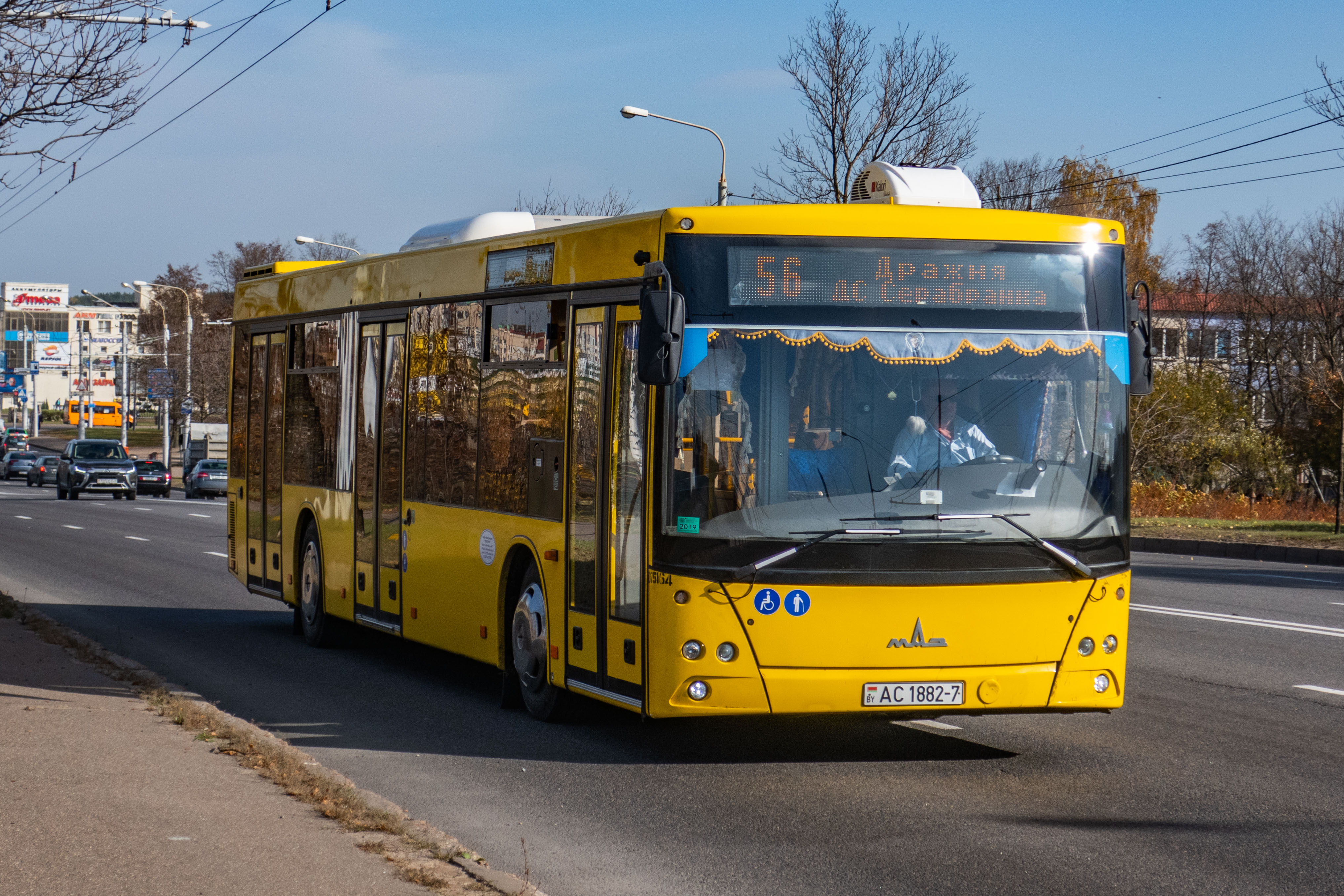 MAZ-203 bus. Minsk, Belarus